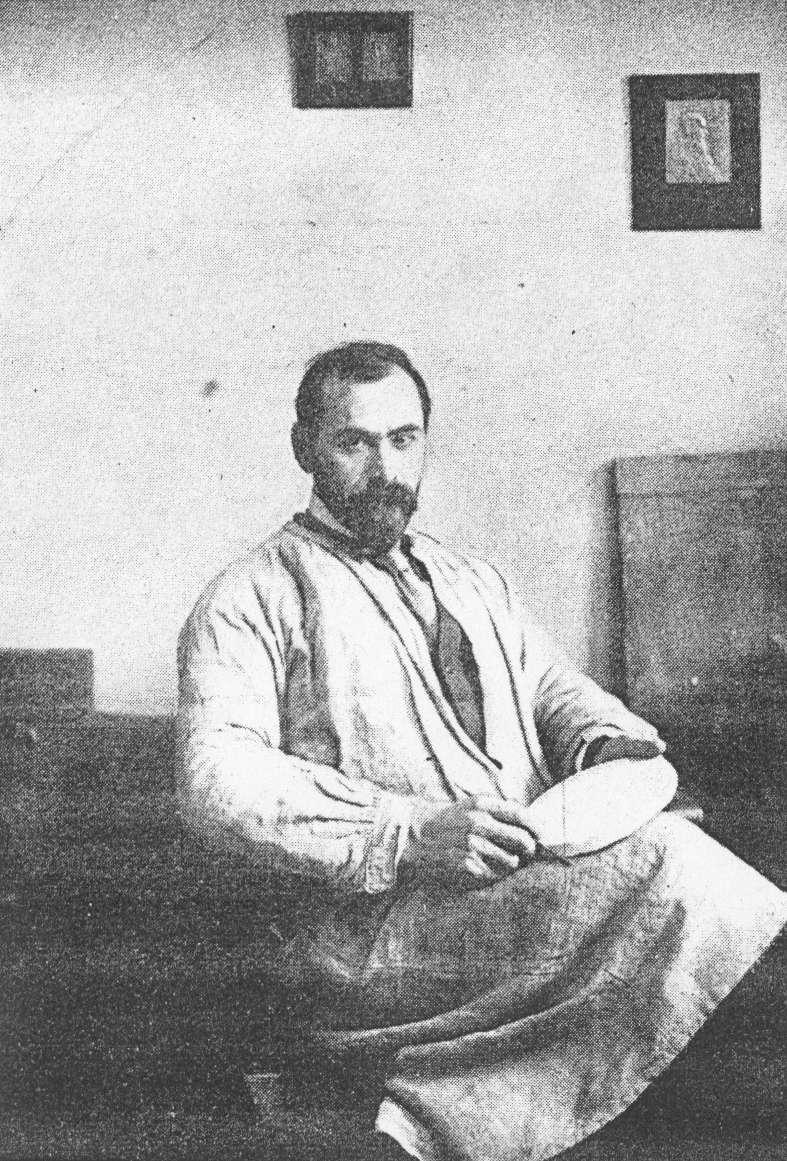 Portrait of Victor David Brenner seated in a studio-like setting with a plaster model of the large design for the Lincoln cent.